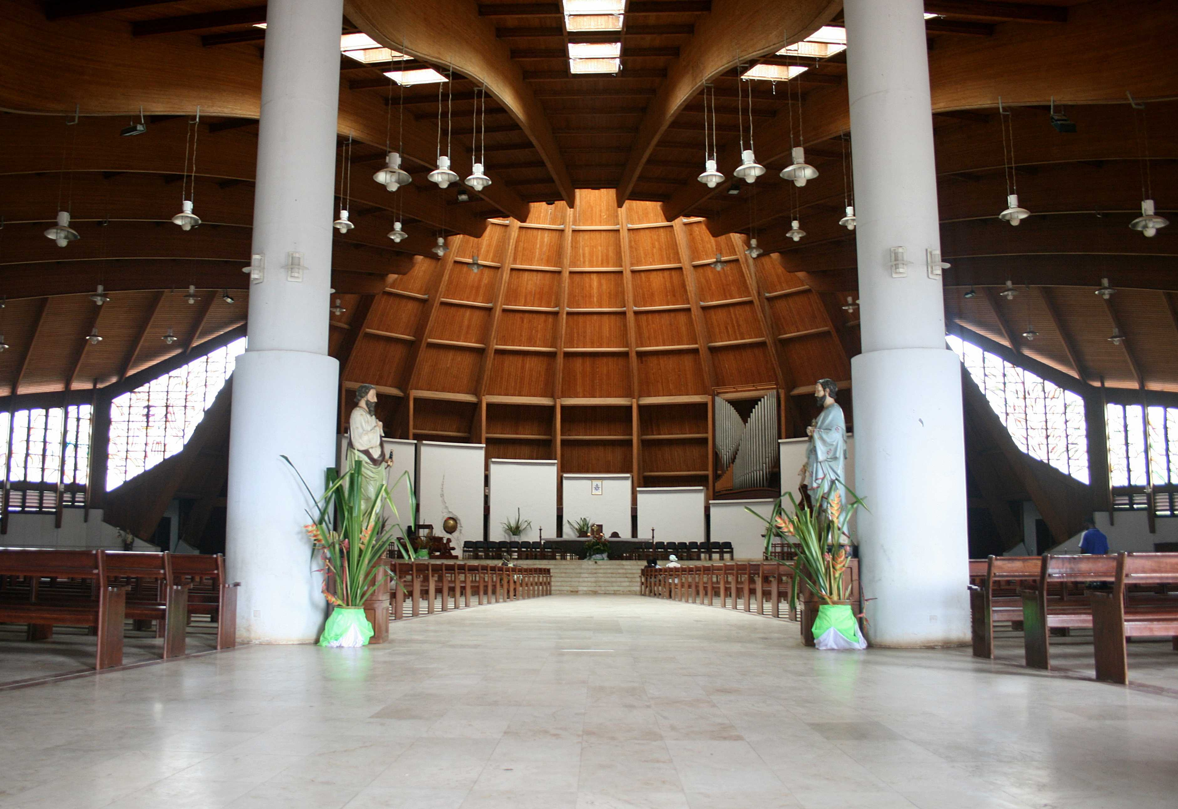 Basilique Marie-Reine-des-Apôtres. Yaounde, Cameroon.